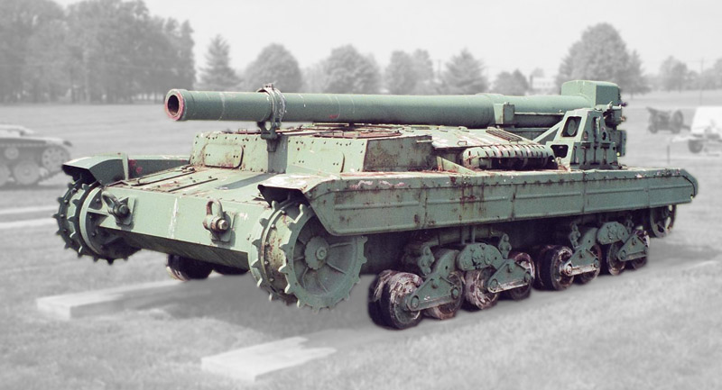 Semovente da 149/40 on display at the US Army Ordnance Museum at Aberdeen. The picture taken in 2000.